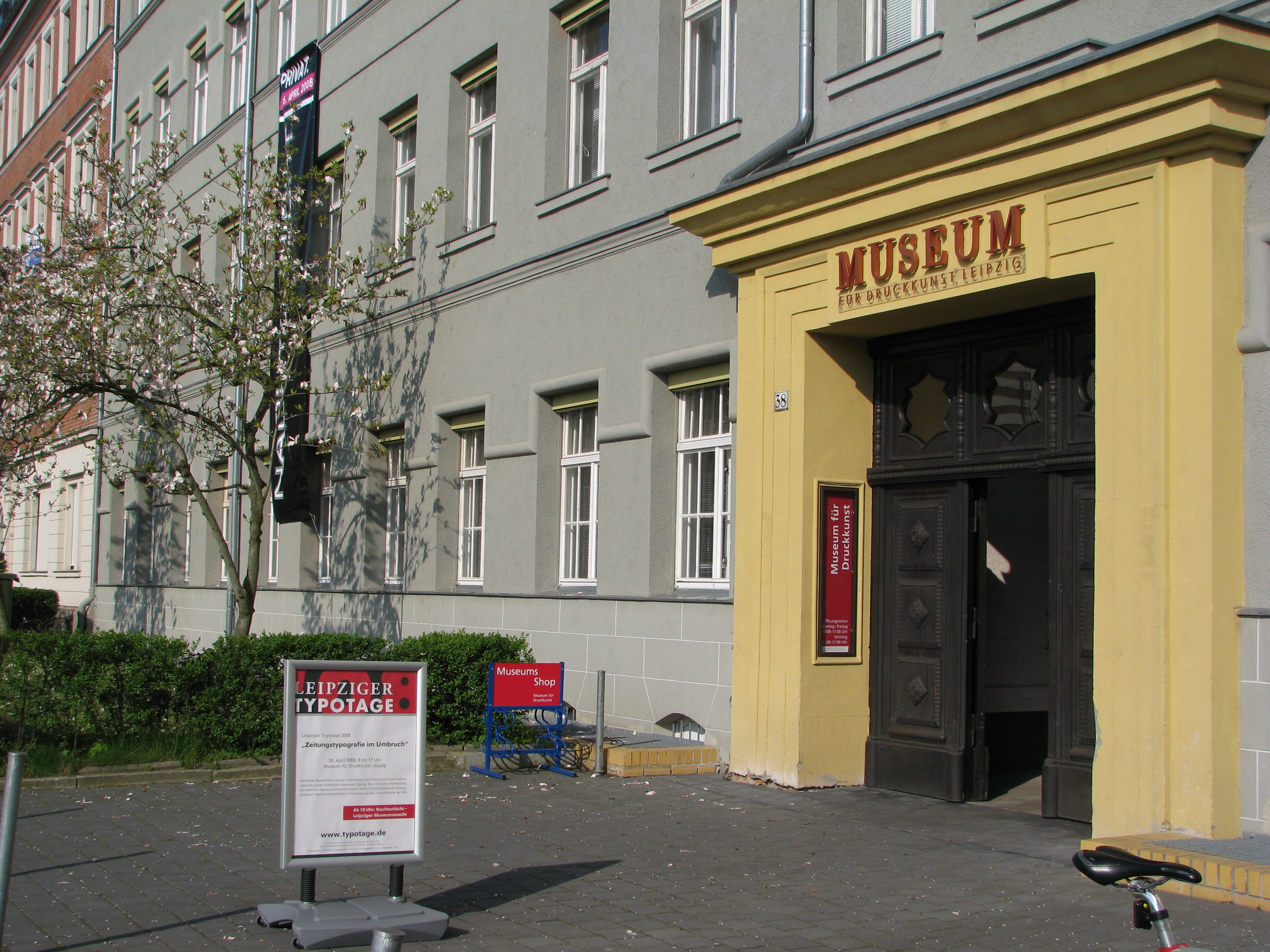 Museum of the Printing Arts Leipzig